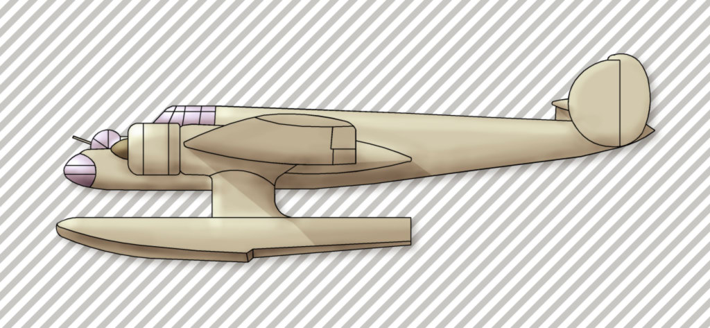 Silhouette diagram of a Blohm und Voss Ha 140